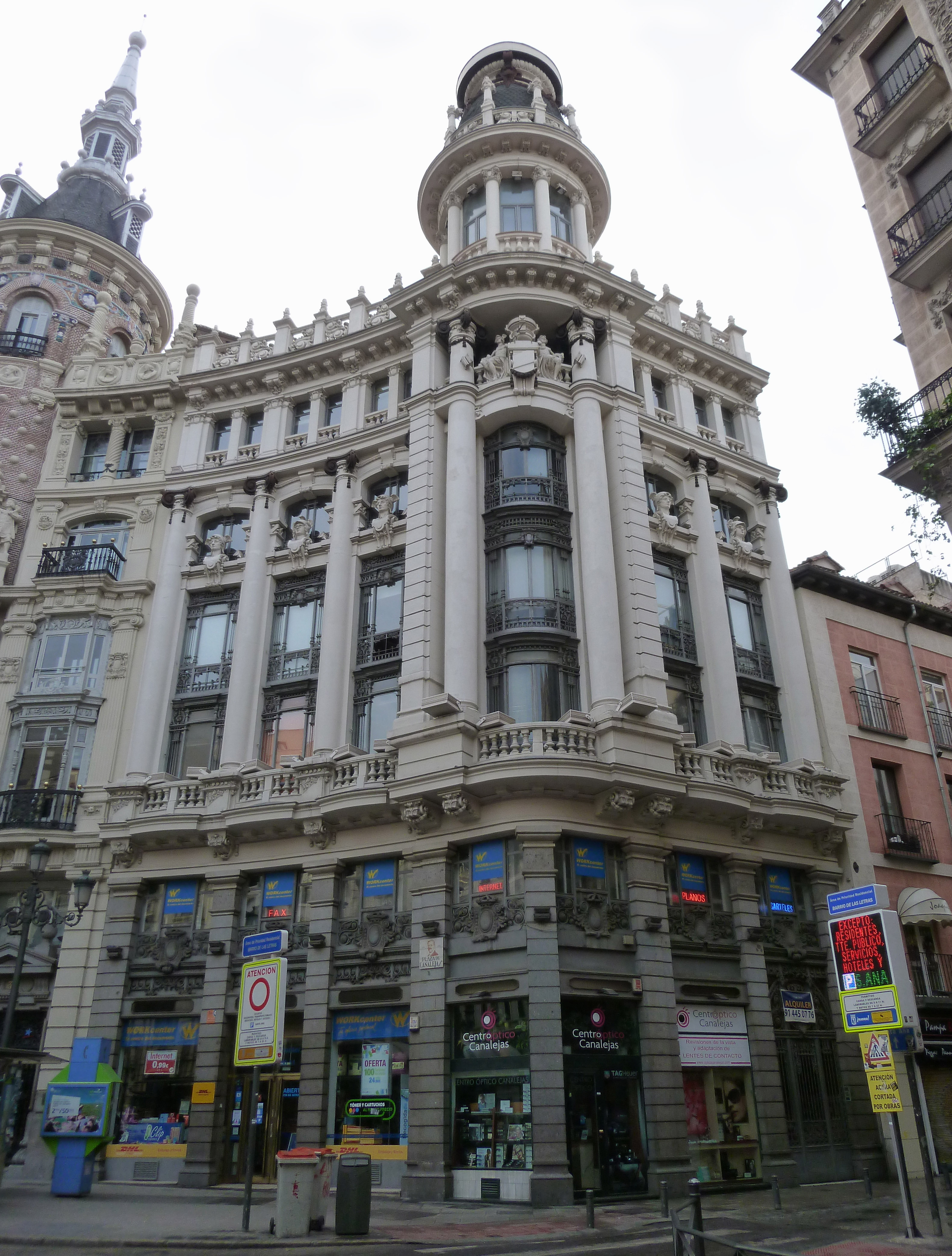 Façade of Edificio Meneses (building) at Plaza de Canalejas (square) in Madrid (Spain).